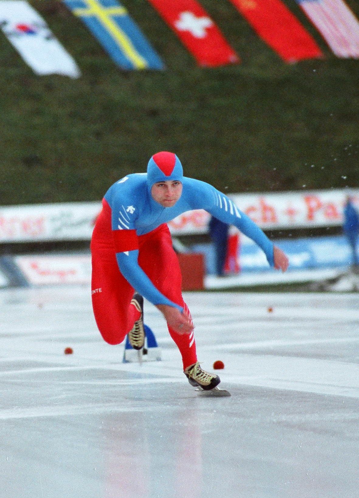 Nick Thometz is an American former speedskater